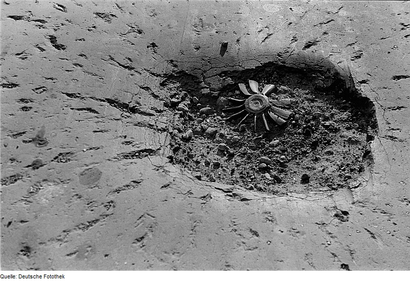 Original image description from the Deutsche Fotothek Windrad des Zündmechanismus einer kleinkalibrigen Splitterbombe (ca. 10–12 kg) im Asphalt nahe AltmarktWind turbine of a small caliber cluster bomb (10–12 kg) in the asphalt near Old Market Square